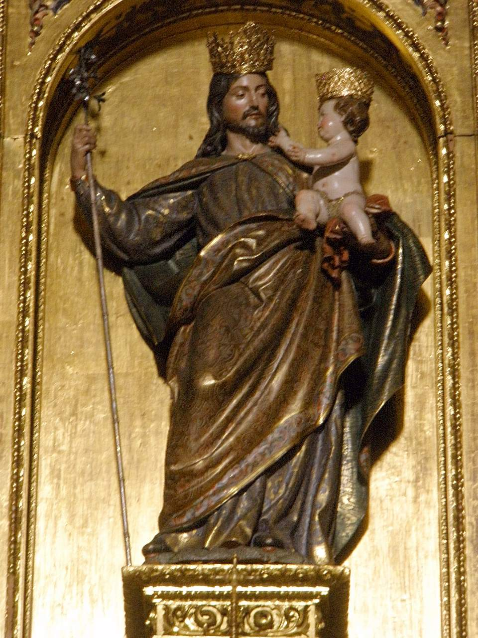 Convento de San José o de las Madres (Ávila). Talla de San José